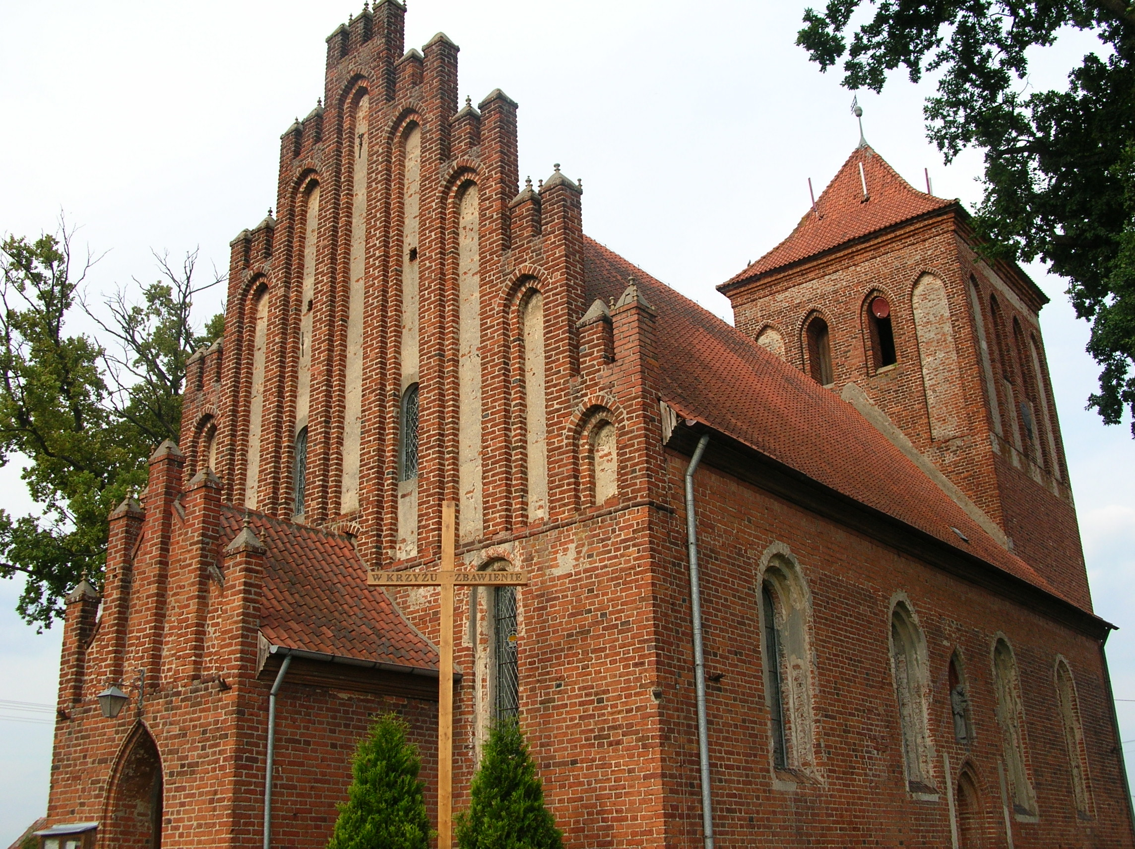 Saint Anthony church at Rakowiec